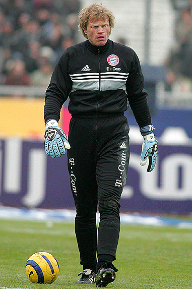 Persepolis F.C. v FC Bayern Munich, 13 January 2006, Azadi Stadium.